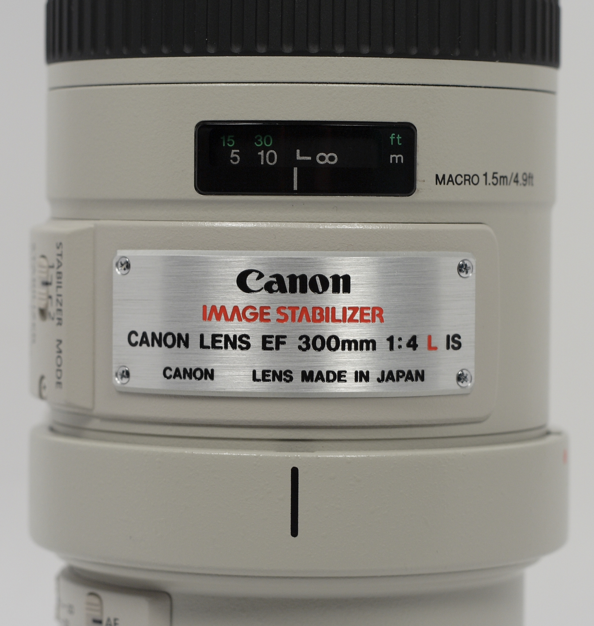 Shot of the Canon EF 300mm f4L IS USM Lebel. This label is a metal plate with the lens name and major specs ingraved in it.